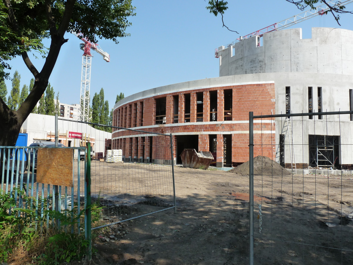 Community building under construction in Újlipótváros, Budapest.